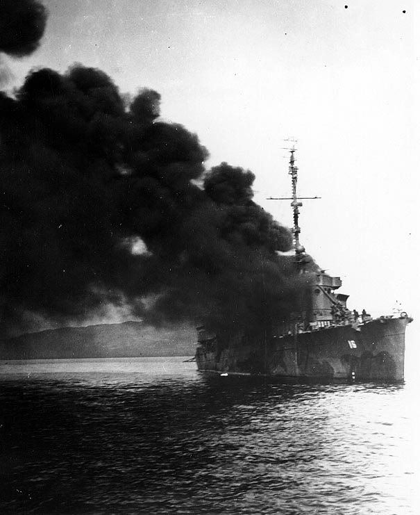 The U.S. Navy high-speed transport USS Ward (APD-16) afire after she was hit by a Kamikaze in Ormoc Bay, Leyte, on 7 December 1944. She sank later in the day. Exactly three years earlier, on the morning of 7 December 1941, while on patrol off Pearl Harbor, Ward fired the first shot of the Pacific War.